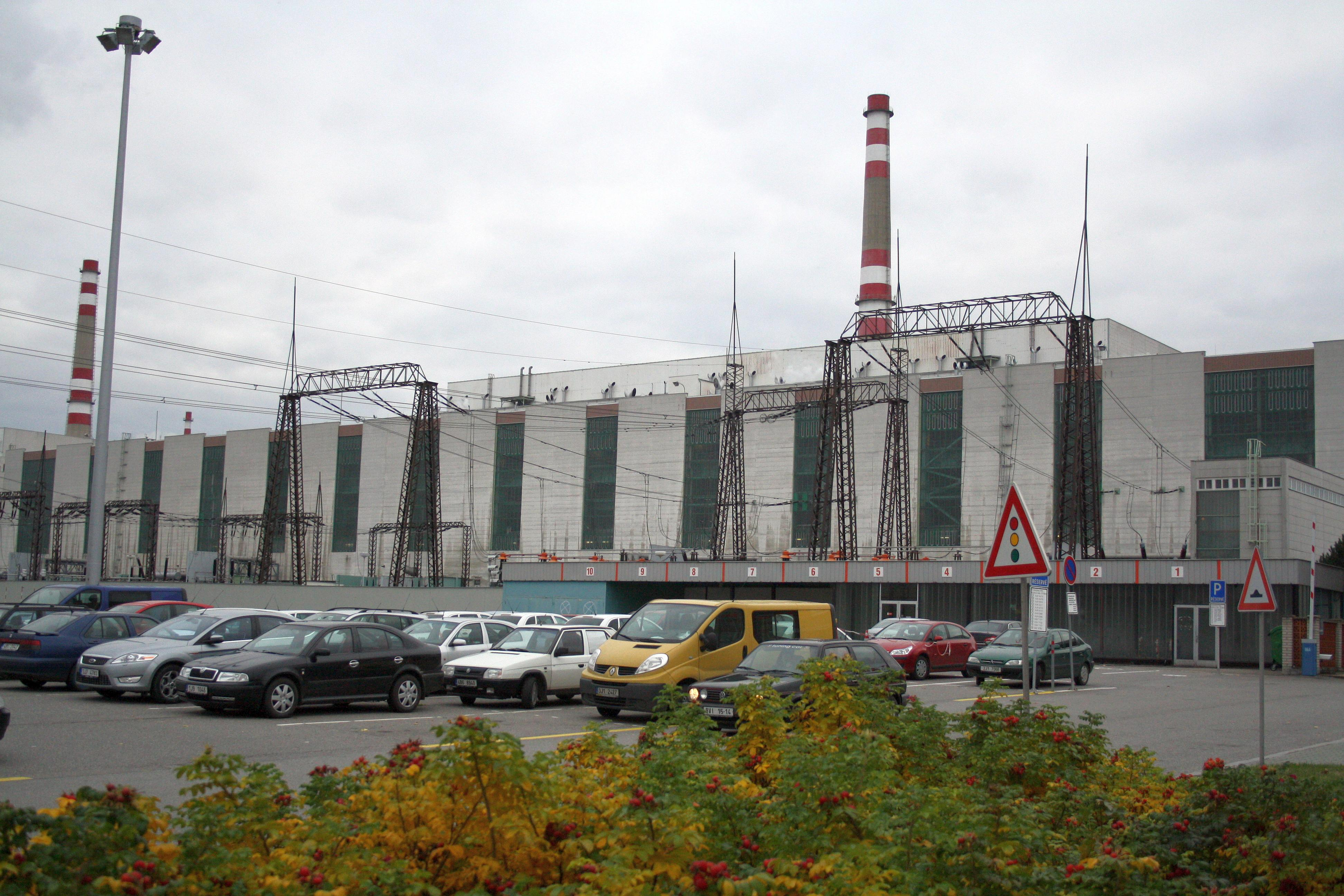 Turbinahall of the first and second nit of the Dukovany Nuclear Power Plant.